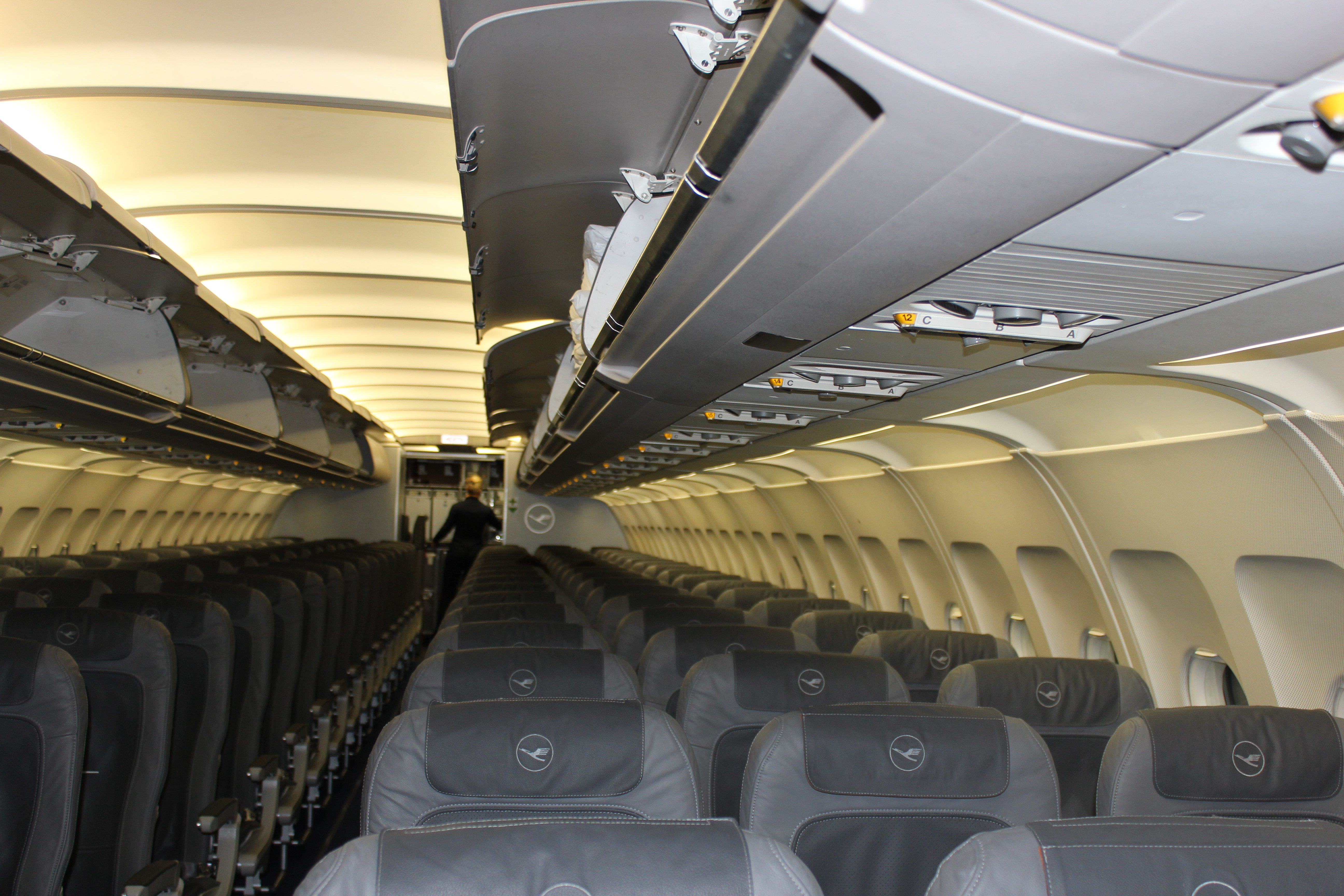 The new Europe Cabin on an A321 of Lufthansa